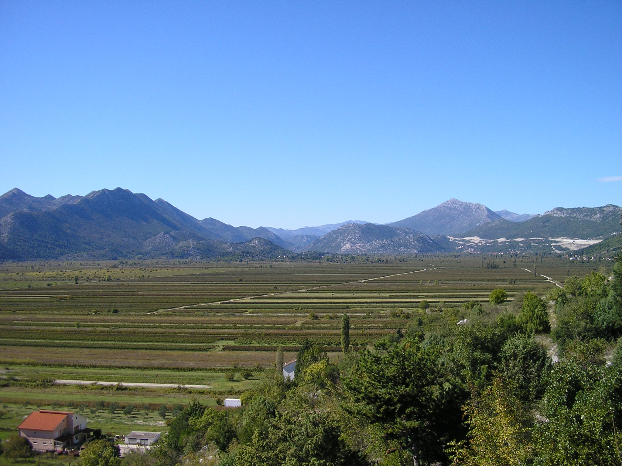 Vrgorac field (Jezero field)